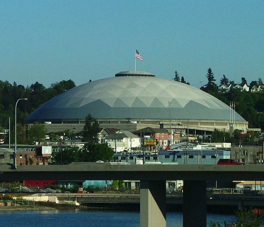 The Tacoma Dome, seen from the Bridge of Glass